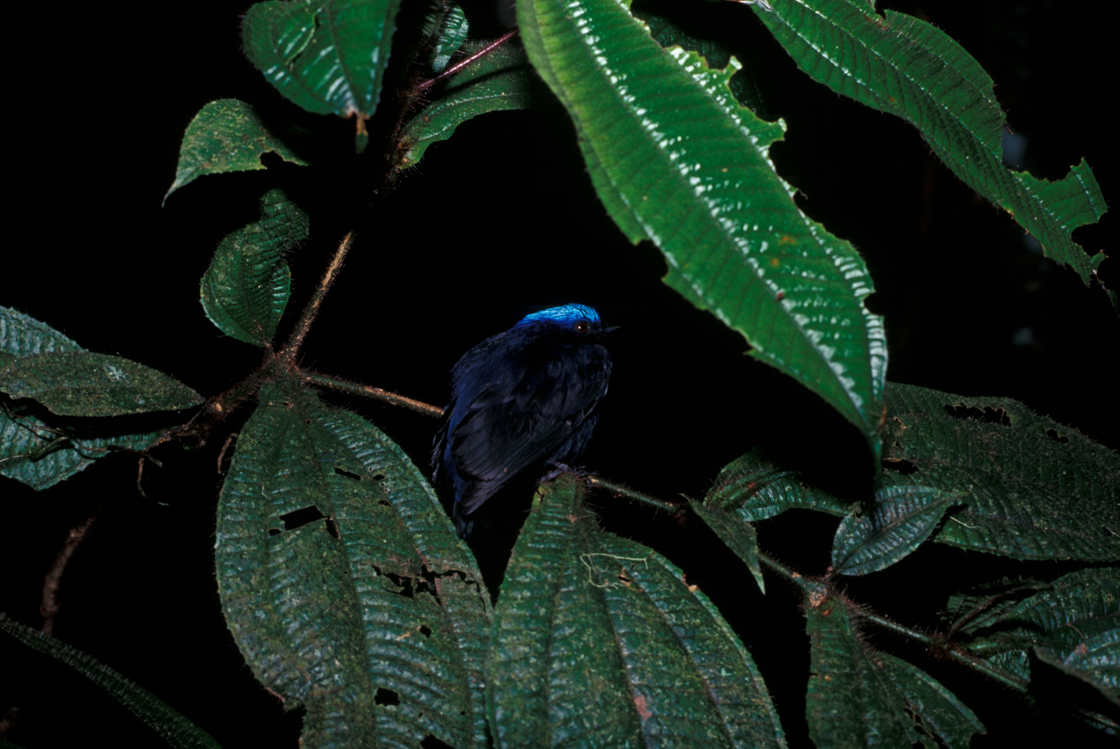 Blue-crowned Manakin (Lepidothrix coronata) from the NBII Image Gallery. A male photographed in Cordillera del Cóndor, Ecuador.